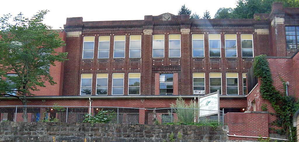 Photo of the closed old Burch High School in Delbarton, WV.